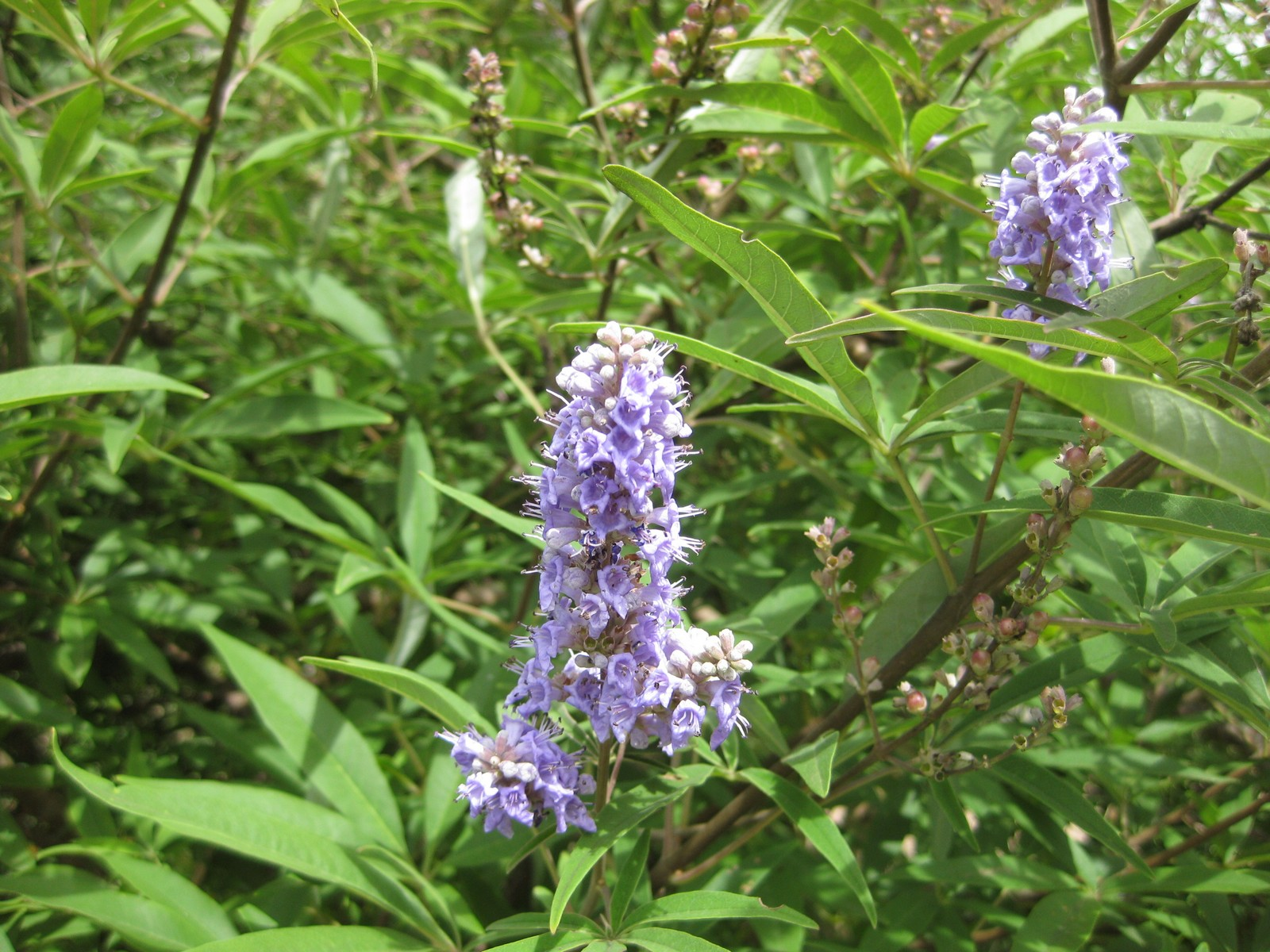 Photographed at the Royal Botanic Gardens Sydney (Australia) in January